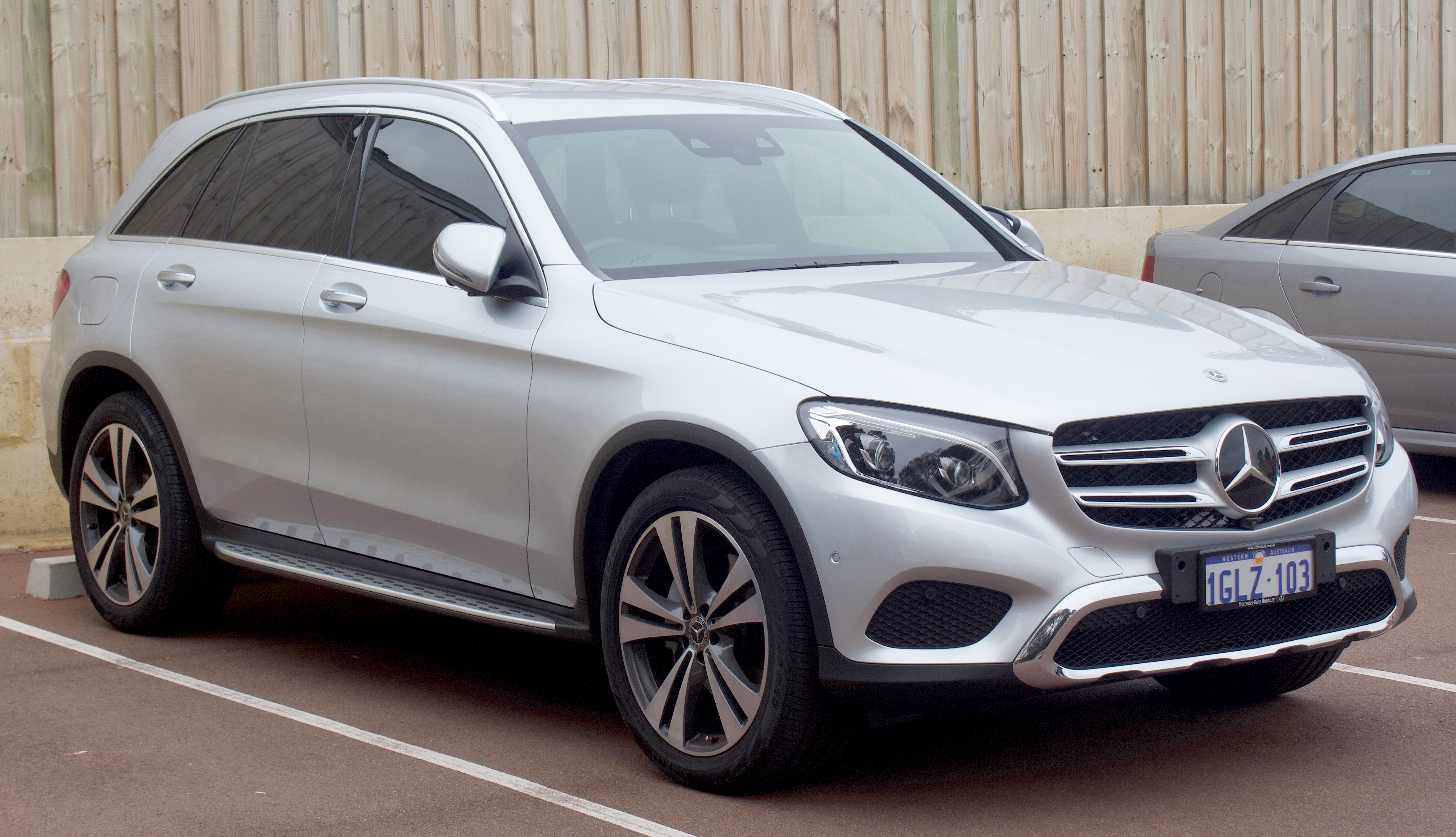 2018 Mercedes-Benz GLC-Class (X 253) 4MATIC wagon. Trim cannot be determined because of no rear shot of this model. Photographed in Swanbourne, Western Australia, Australia.